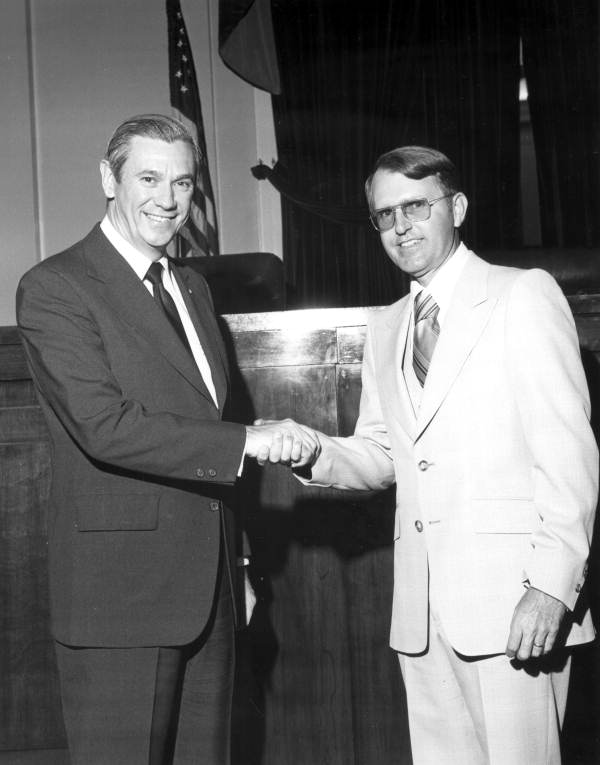 Justice James E. Alderman of St. Lucie county (right) being congratulated on his assent to the bench by his appointee, Gov. Reubin O'D Askew.